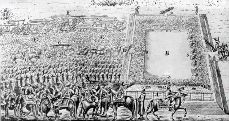 Election of Michał Korybut Wiśniowiecki on Wola fields in 1669. A-Horse shed, B-Election place, C-Parsonage of nuncio Marescolti, D-Gate, E-Guards (polskie gwardie przyboczne), F-Carts 1-Nuncio, 2-Primate, 3-Bishop of Kraków, 4 and 5 Benchs for Senators and Bishops.